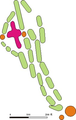 Simple outline of the Folkert Mound Group, Hardin County, Iowa. Bill Whittaker (talk) 16:59, 1 April 2009 (UTC)